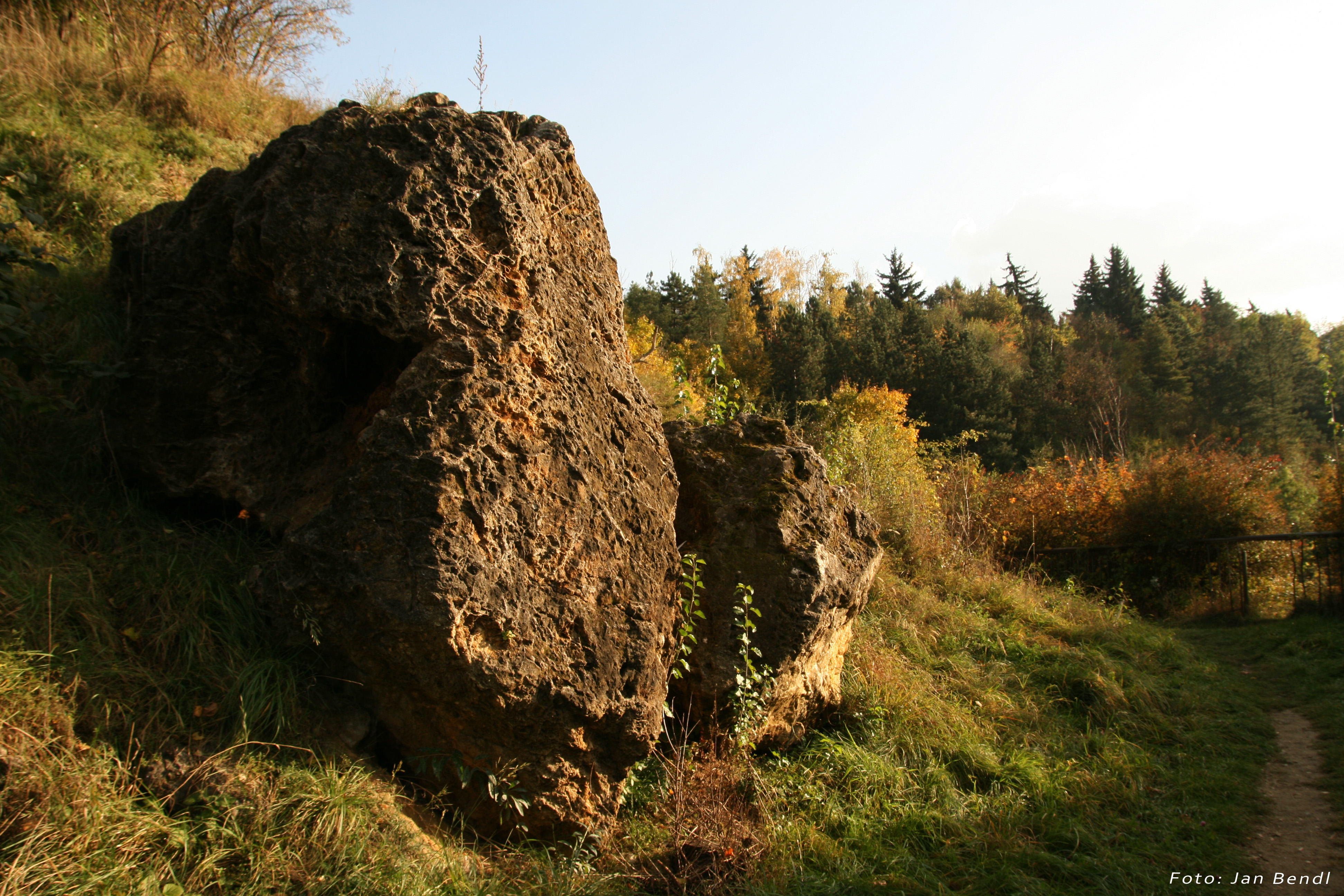 Natural monument Podolský profil in Prague, Czech Republic